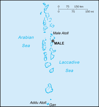 Map of Maldives from